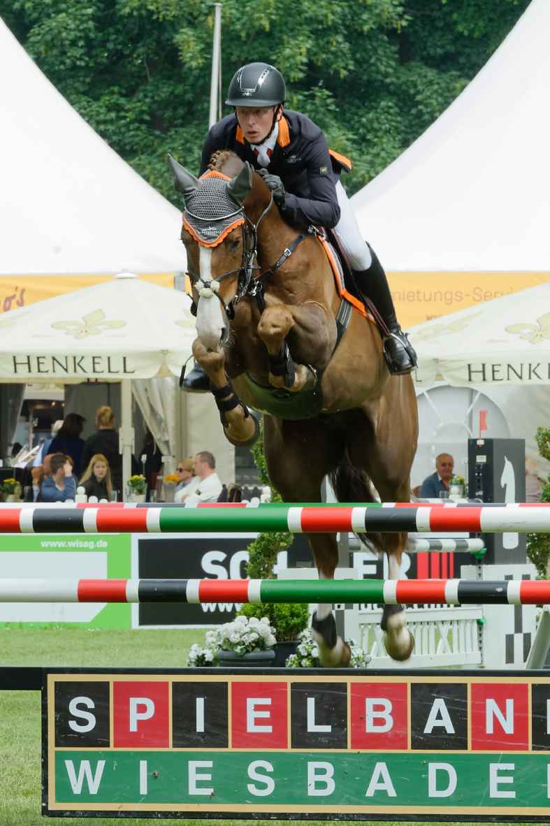 CSIYH* int. Springprüfung nach Strafpunkten und Zeit Internationales Pfingstturnier Wiesbaden 2015 The making of this document was supported by the Community-Budget of Wikimedia Germany.